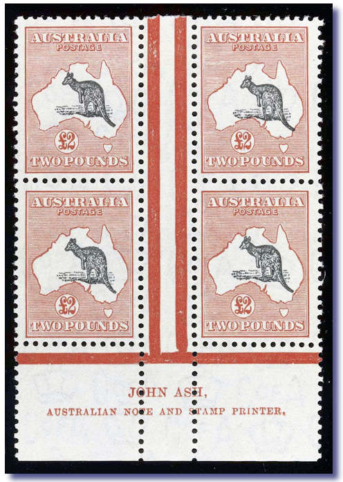 Block of £2 kangaroo stamps of Australia with the imprint of the printer John Ash. Circa 1913 or later.